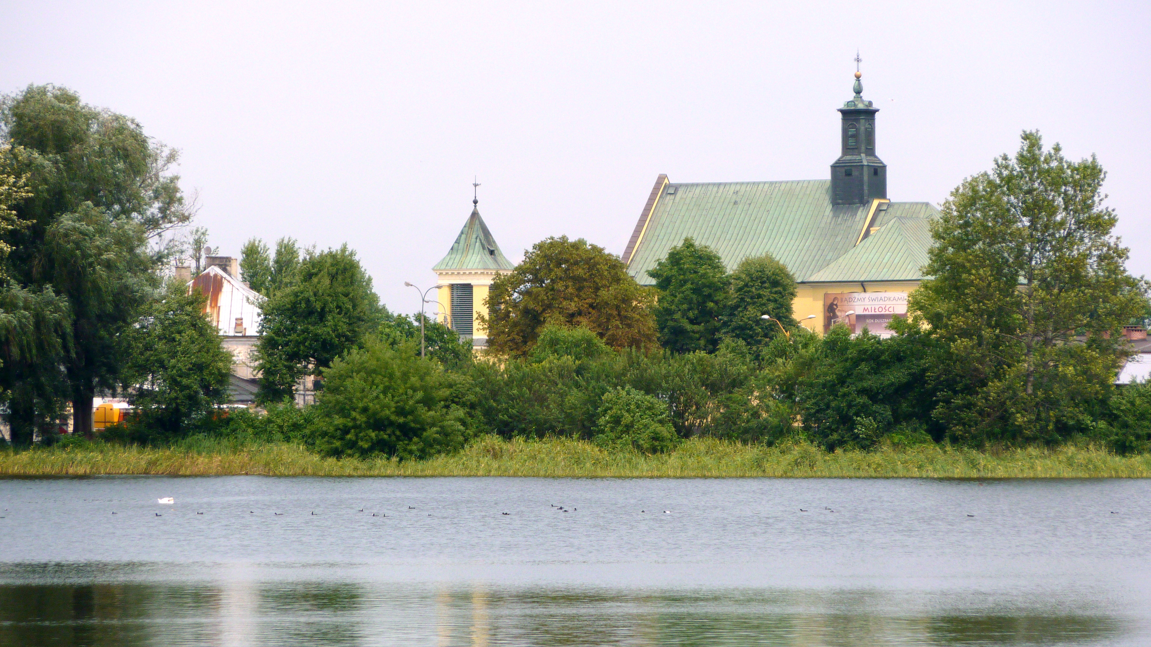 Saint Szczepan and Saint Anna Church in Raszyn